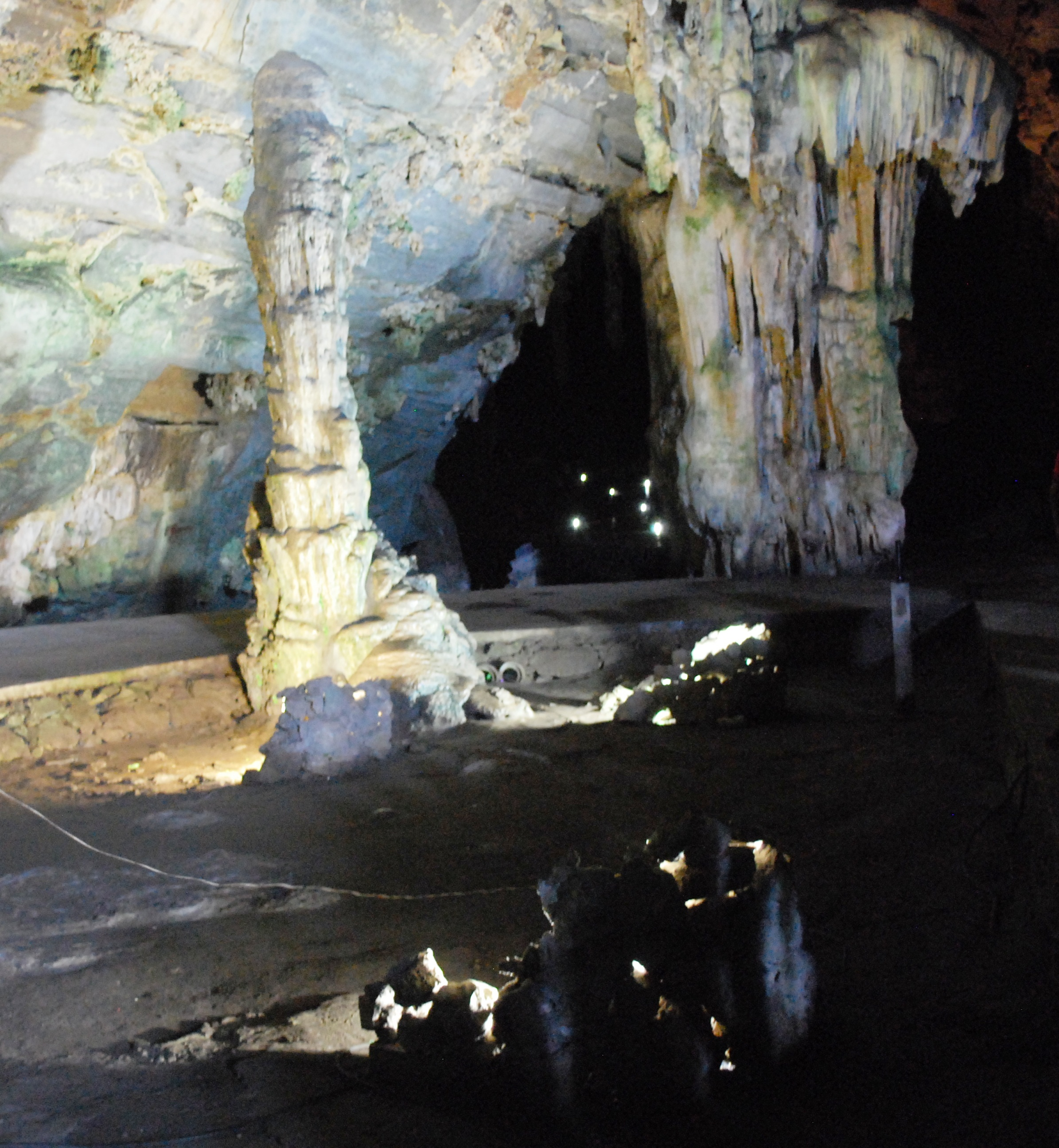 Some of the formations in the Cacahuamilpa Caverns in Guerrero State, Mexico